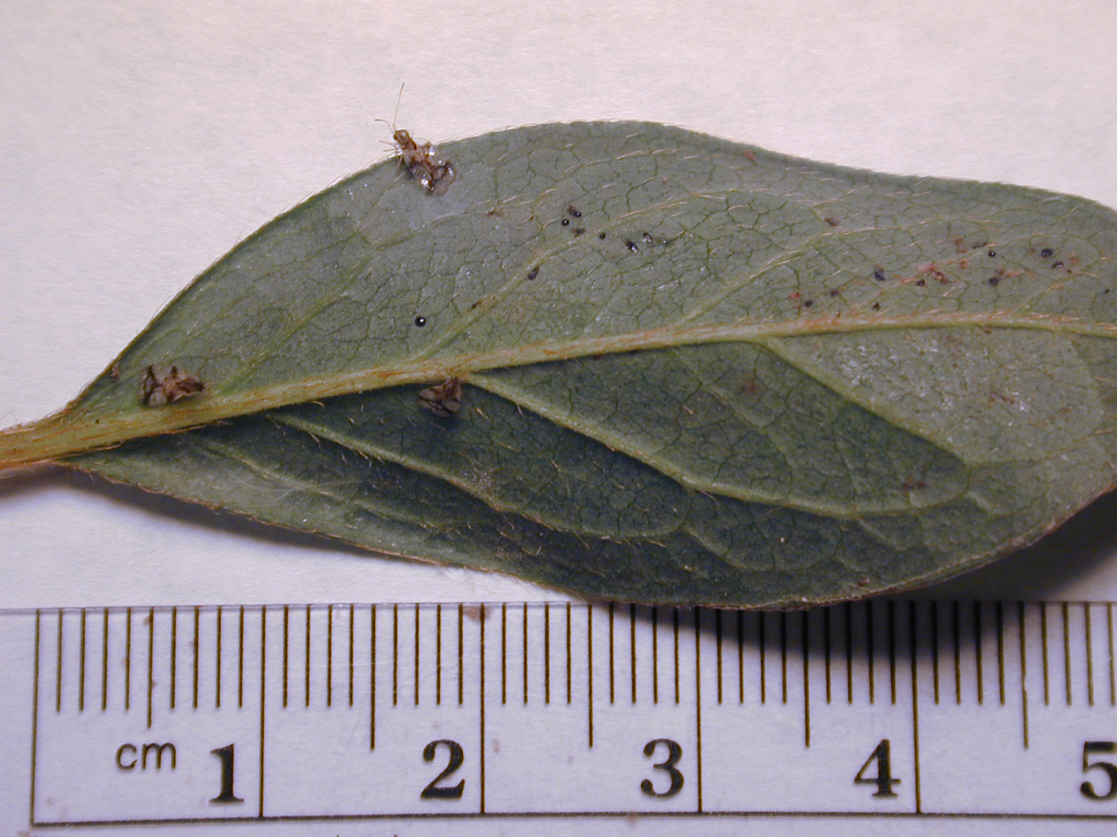 Rhododendron sp. (Stephanitis pyrioides). Location: Maui, Makawao